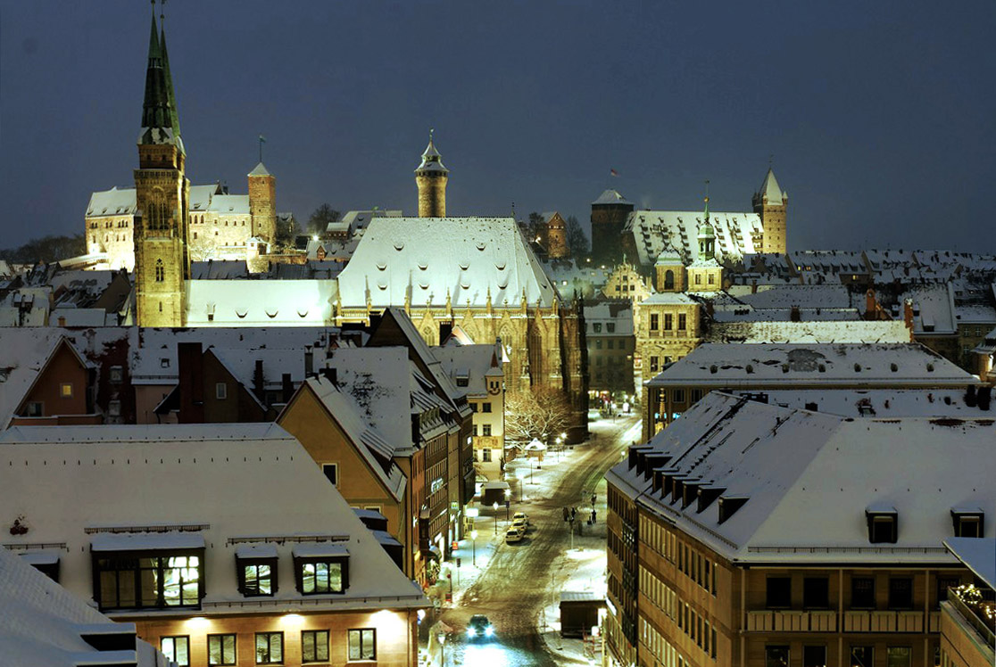 Castle, St. Sebald, City Hall, Old Town, Nuremberg, Germany